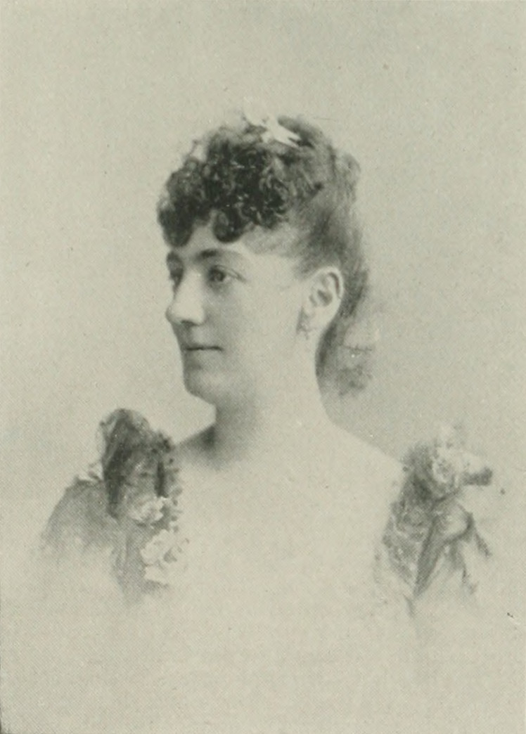 A Woman of the Century